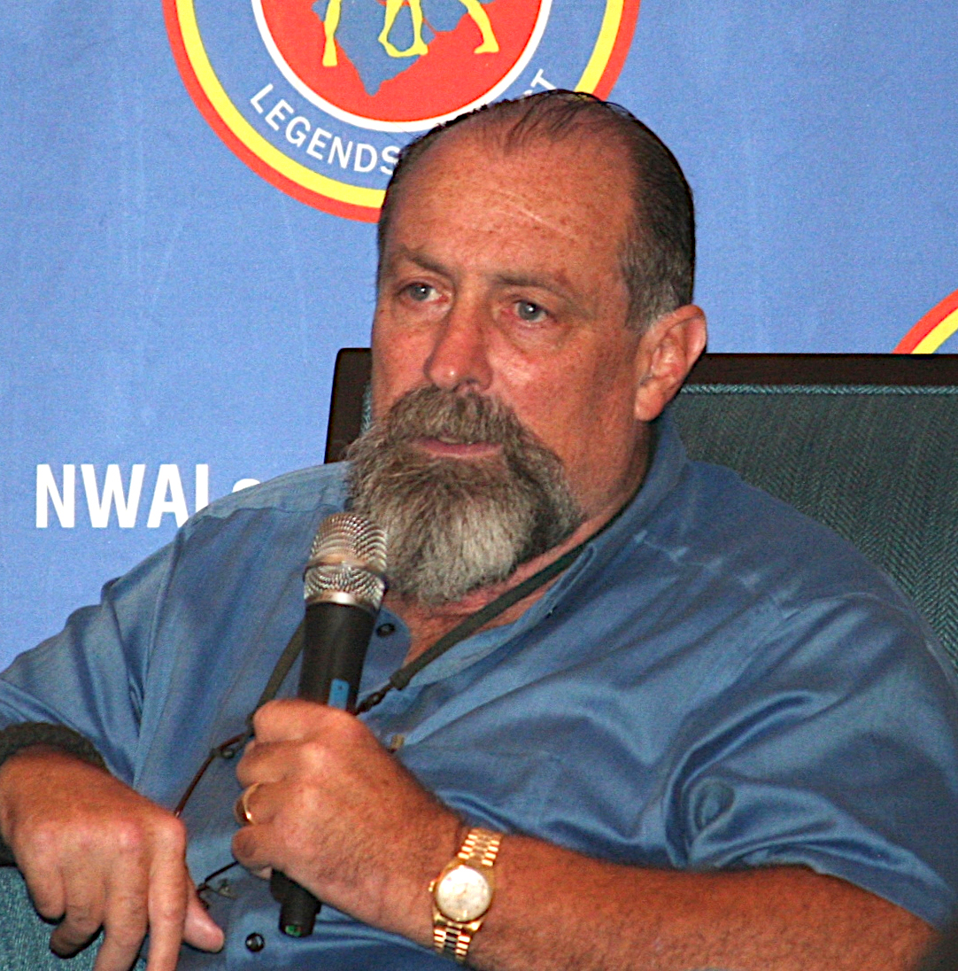 Professional wrestler Magnum T.A. in august 2015